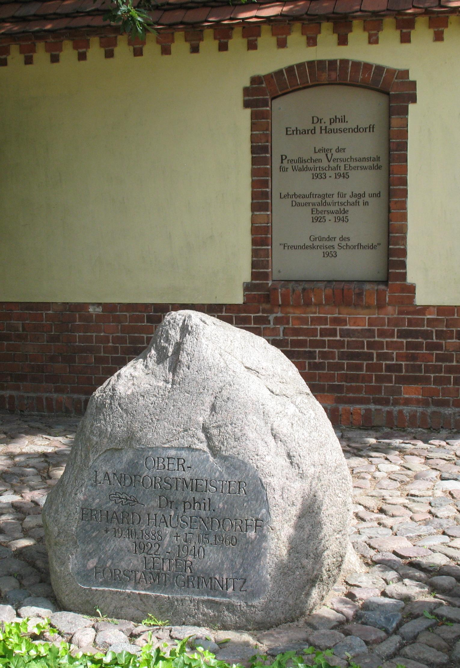 Memorial for Erhard Hausendorff in Joachimsthal in Brandenburg, Germany